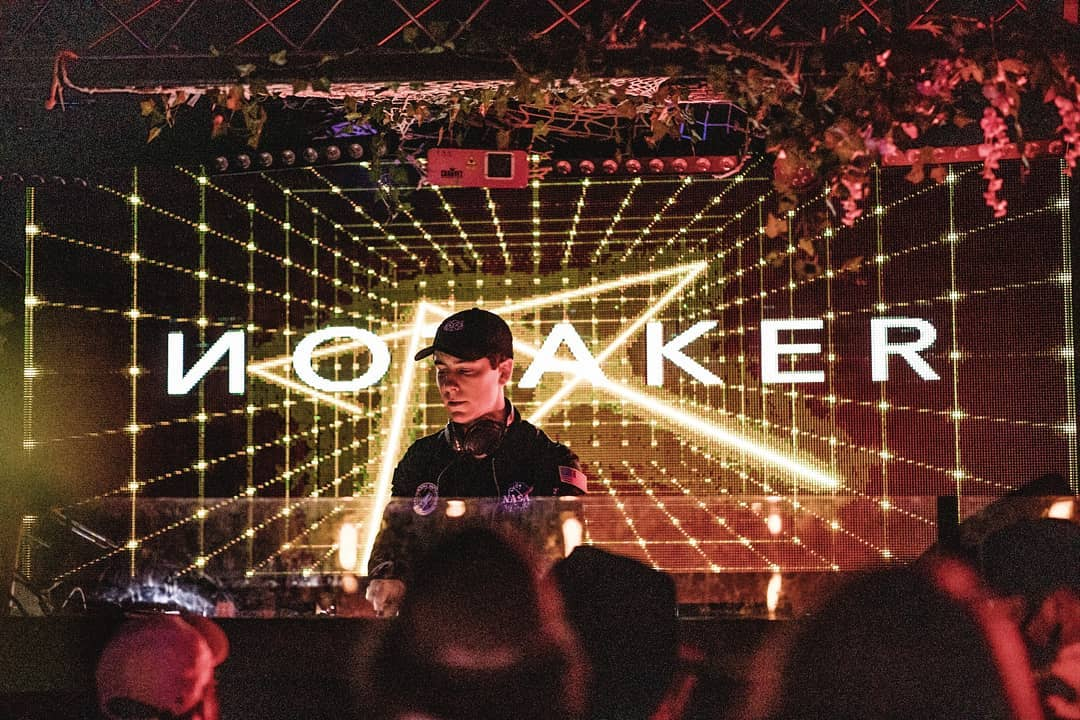 Notaker Performing in Miami 2019